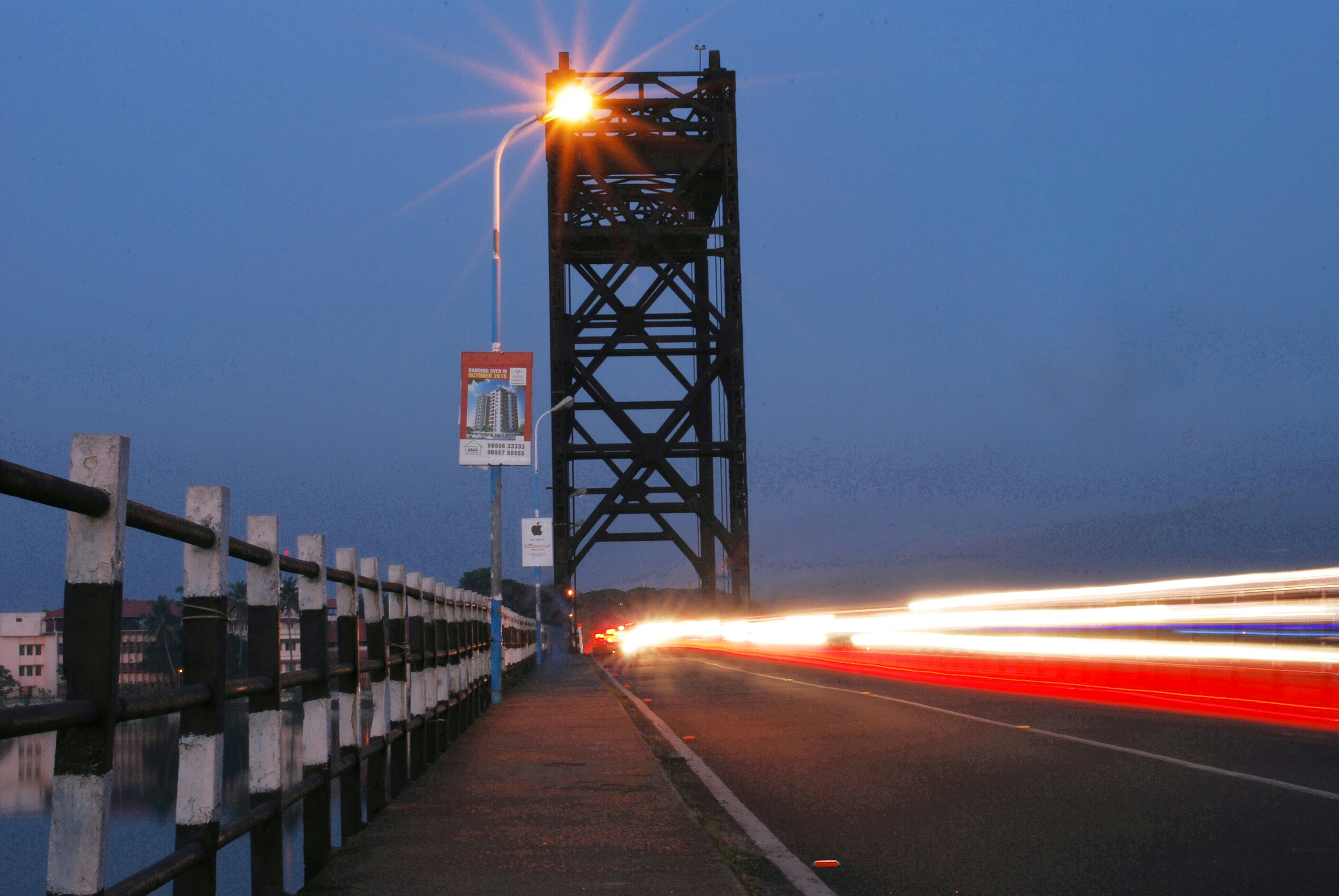 Old Thoppumpady Bridge (Harbor Bridge) was built by the British in the pre independence period.